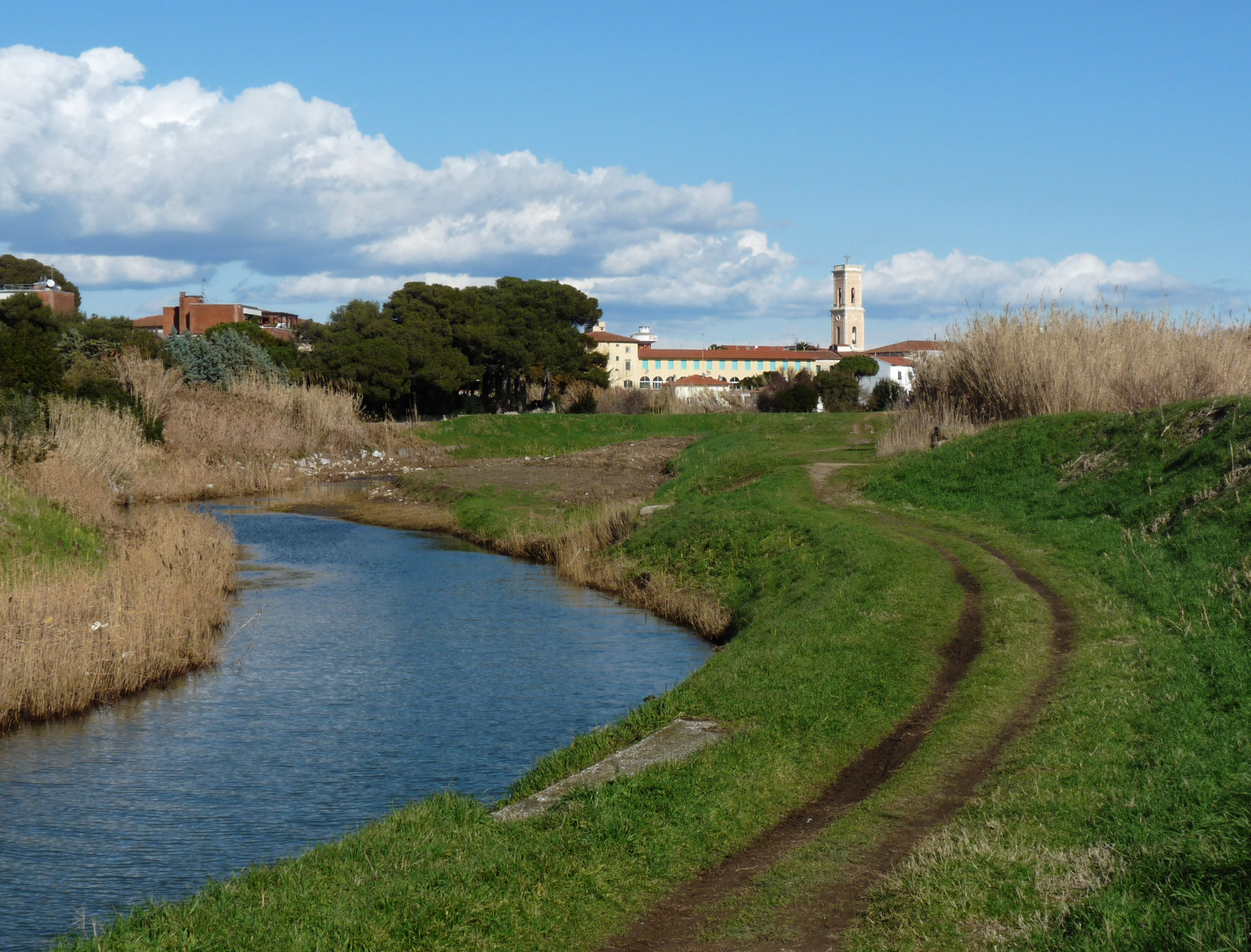 Rio Ardenza, Livorno, Tuscany, Italy